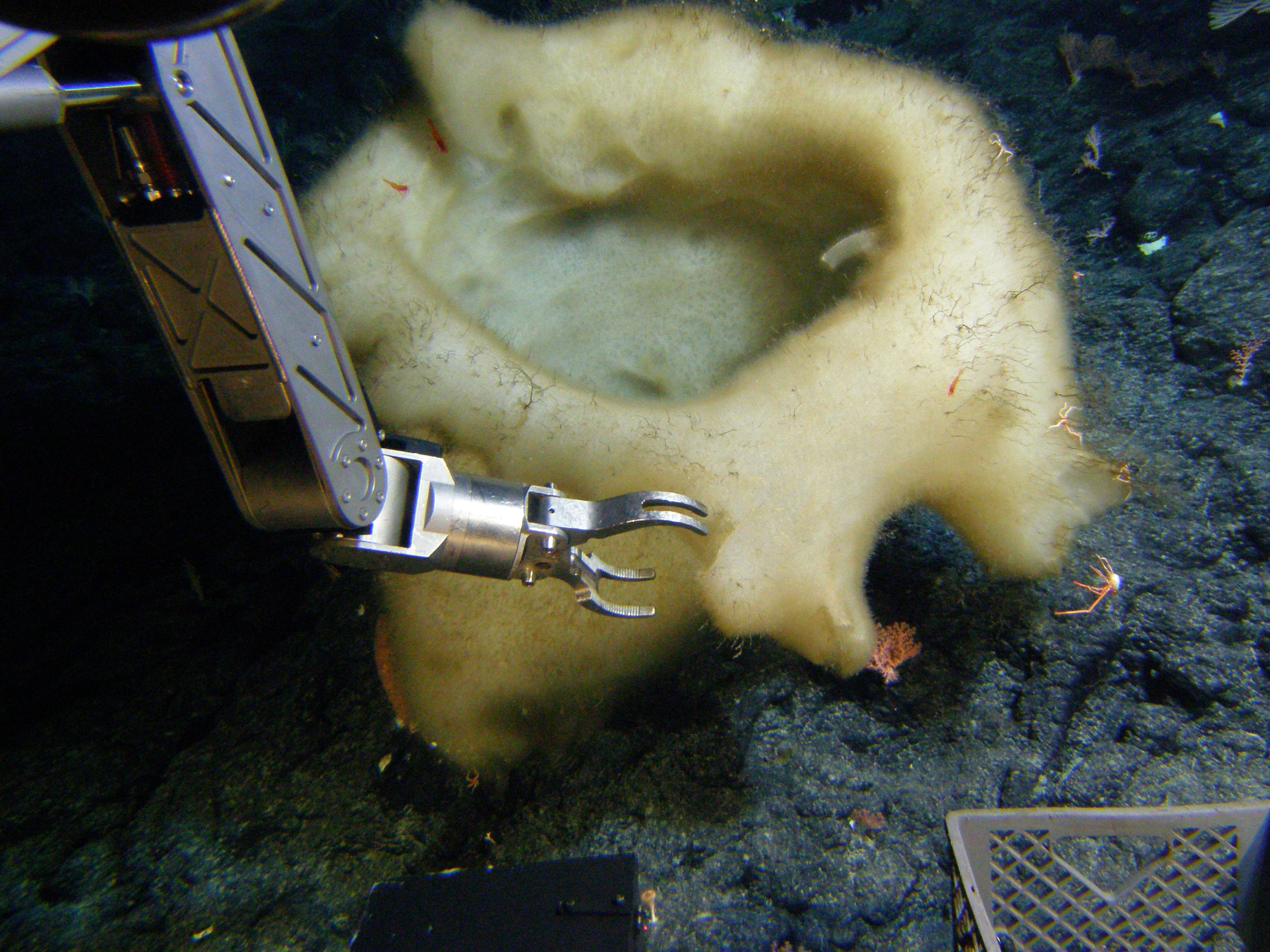 A submersible, the Pisces V, is picking up a cauldron sponge.